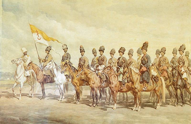 Don's Cossacks